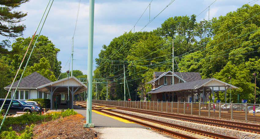 Haverford, PA, SEPTA Regional Rail station house by the inbound tracks (1 & 2) on left, and the former station agent's house by the outbound tracks (3 & 4) on right, at MP 9.1 of the Amtrak owned four track "Keystone Corridor" Philadelphia-Harrisburg "Main Line" grade.